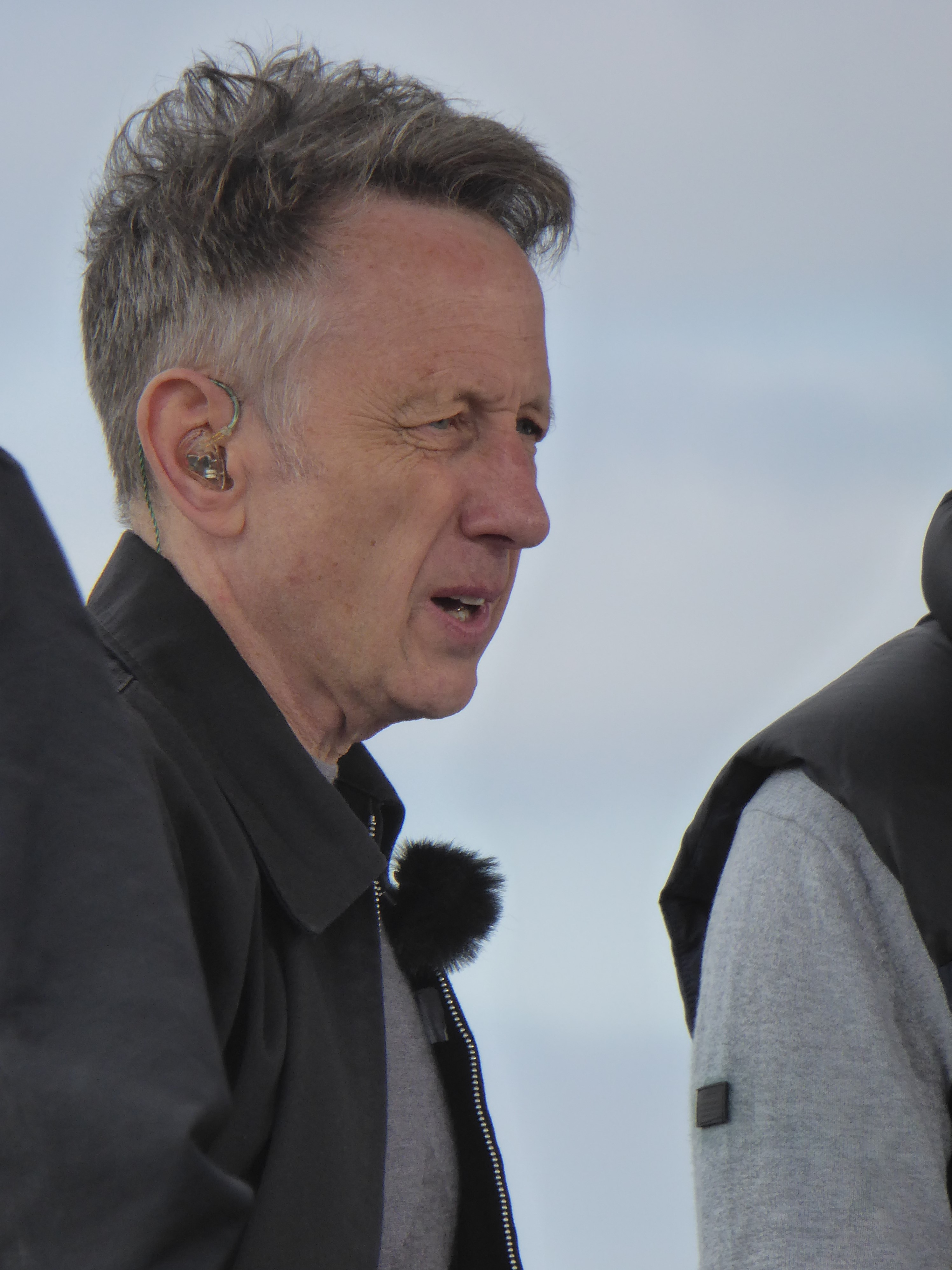 Gary Imlach, on ITV Sport's presentation platform at the 2018 Tour de Yorkshire.